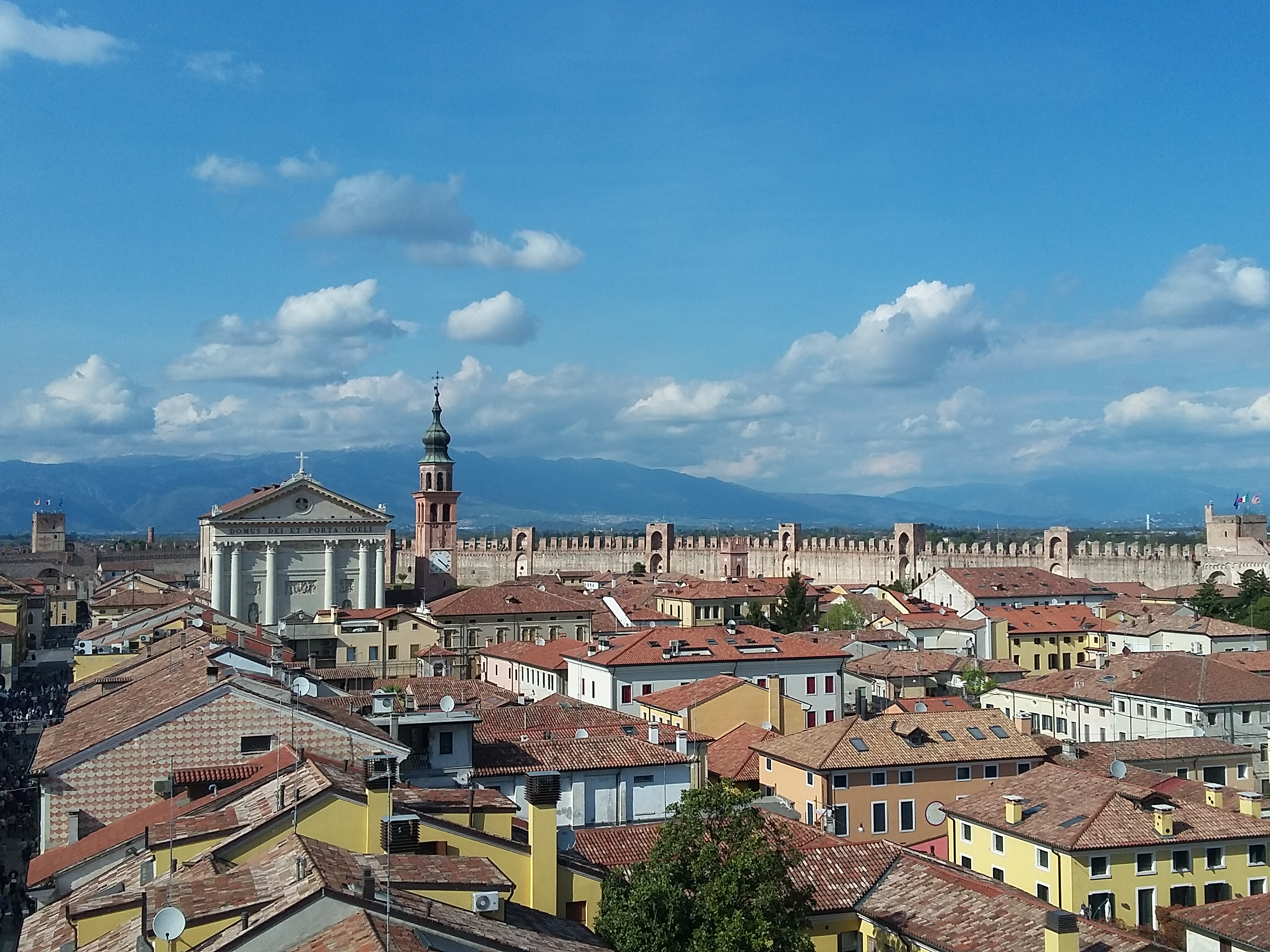 This picture of the old town of Cittadella was taken from the walls that surround it. On the left, you can see the neoclassical "duomo" (cathedral).